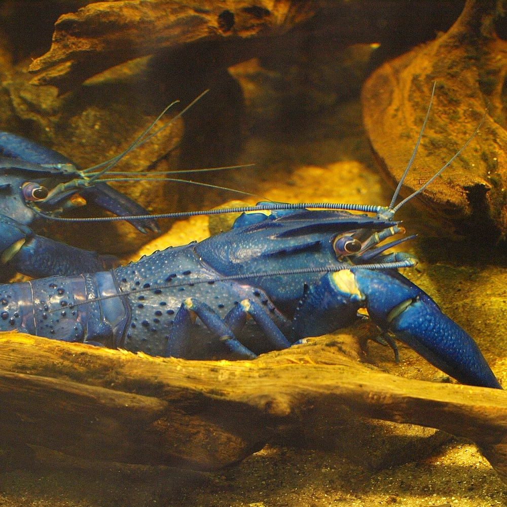 Cherax tenuimanus (Parastacidae) from Toba Aquarium, Japan